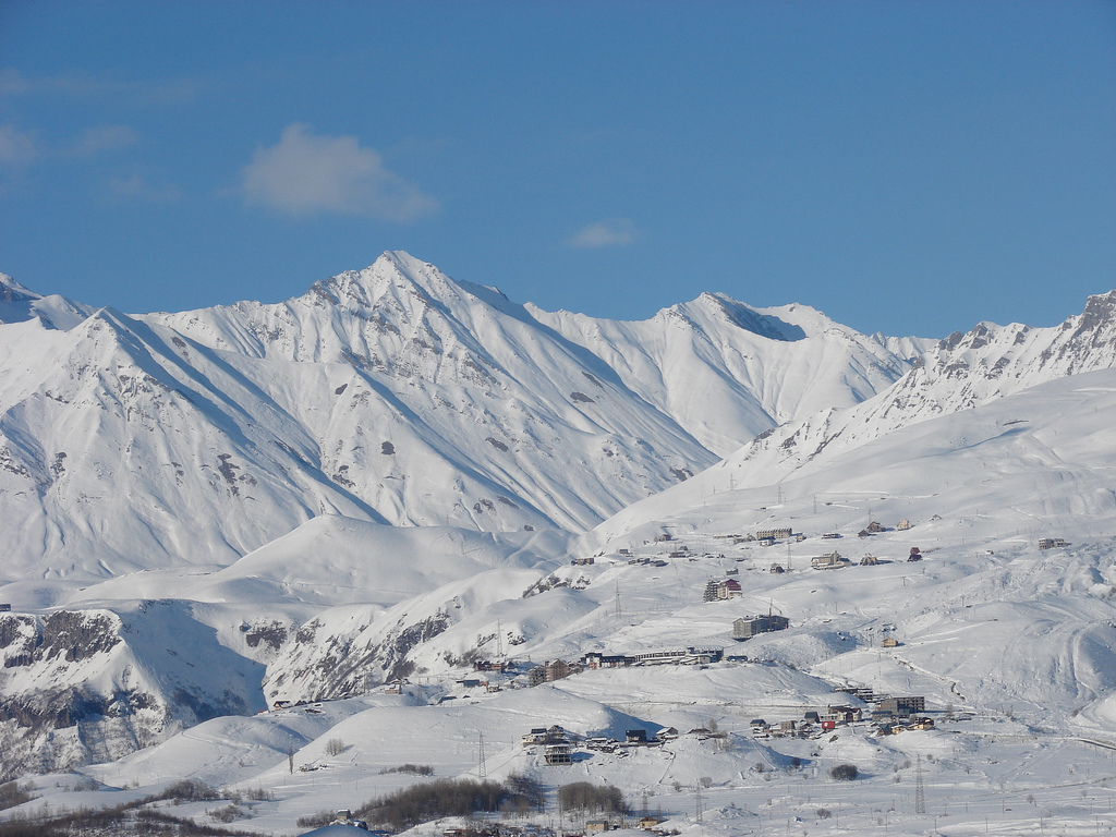 Gudauri